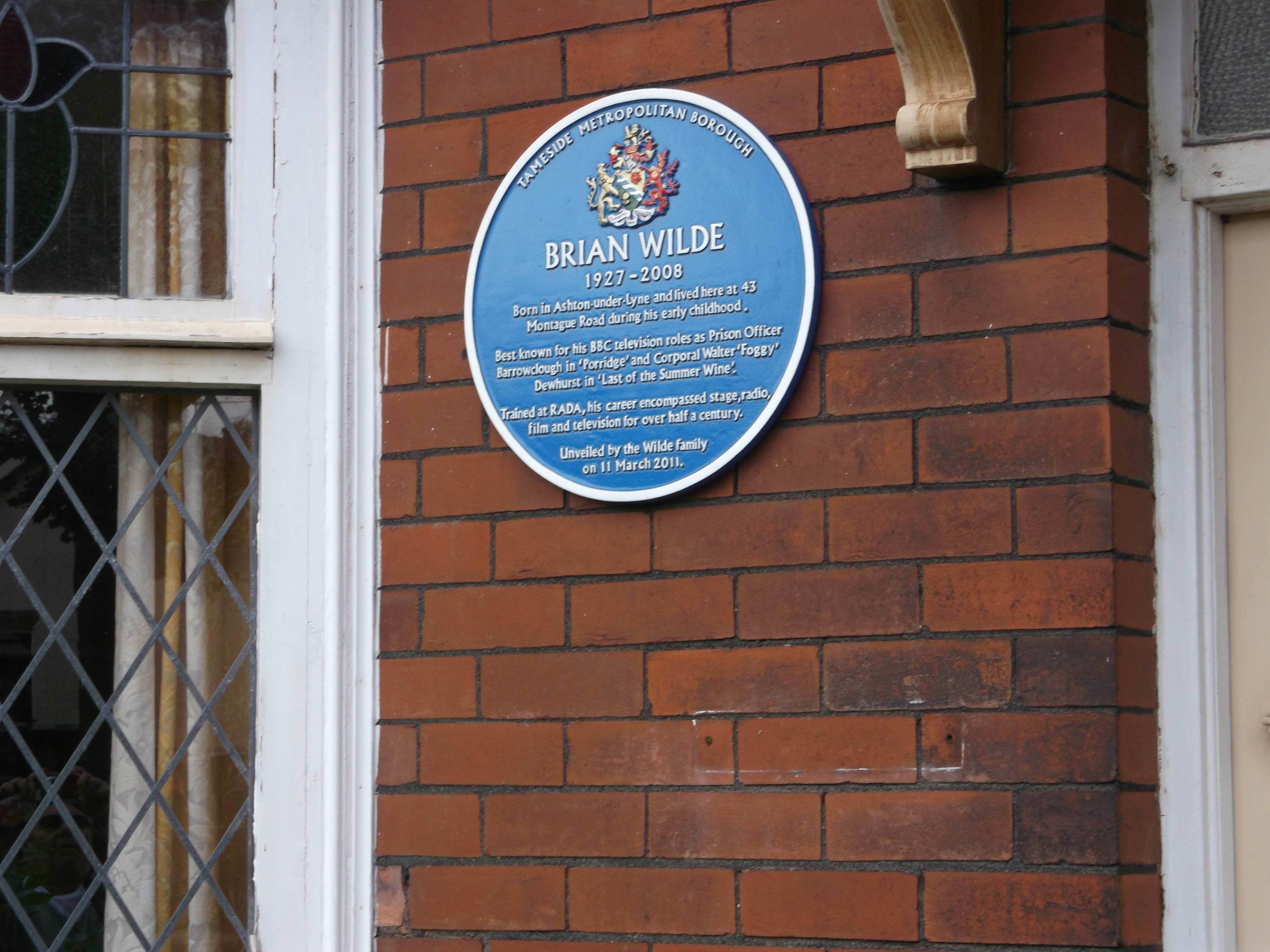 Brian Wilde plaque Ashton-upon-Lyme